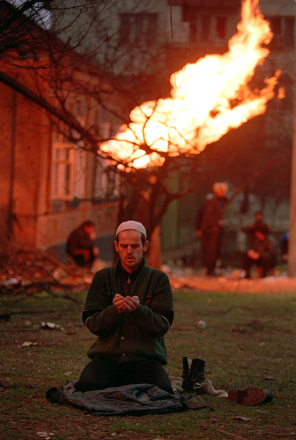 A Chechen man prays during the battle for Grozny. The flame in the background is coming from a gas pipeline which was hit by shrapnel.